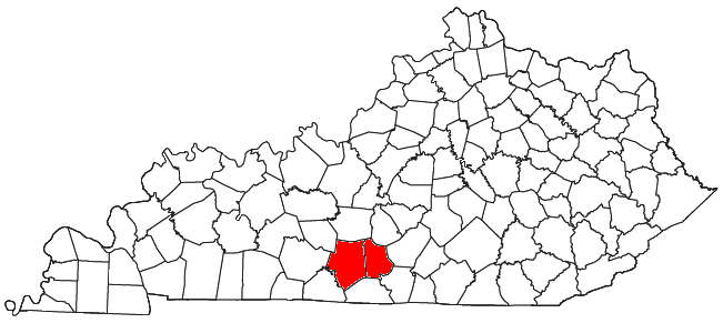 Locator map of the Glasgow Micropolitan Statistical Area in the southern part of the U.S. state of Kentucky.